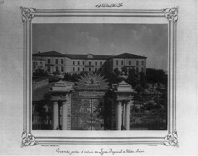 Mekteb-i Sultani (Galatasaray High School) between 1880 and 1893 r3